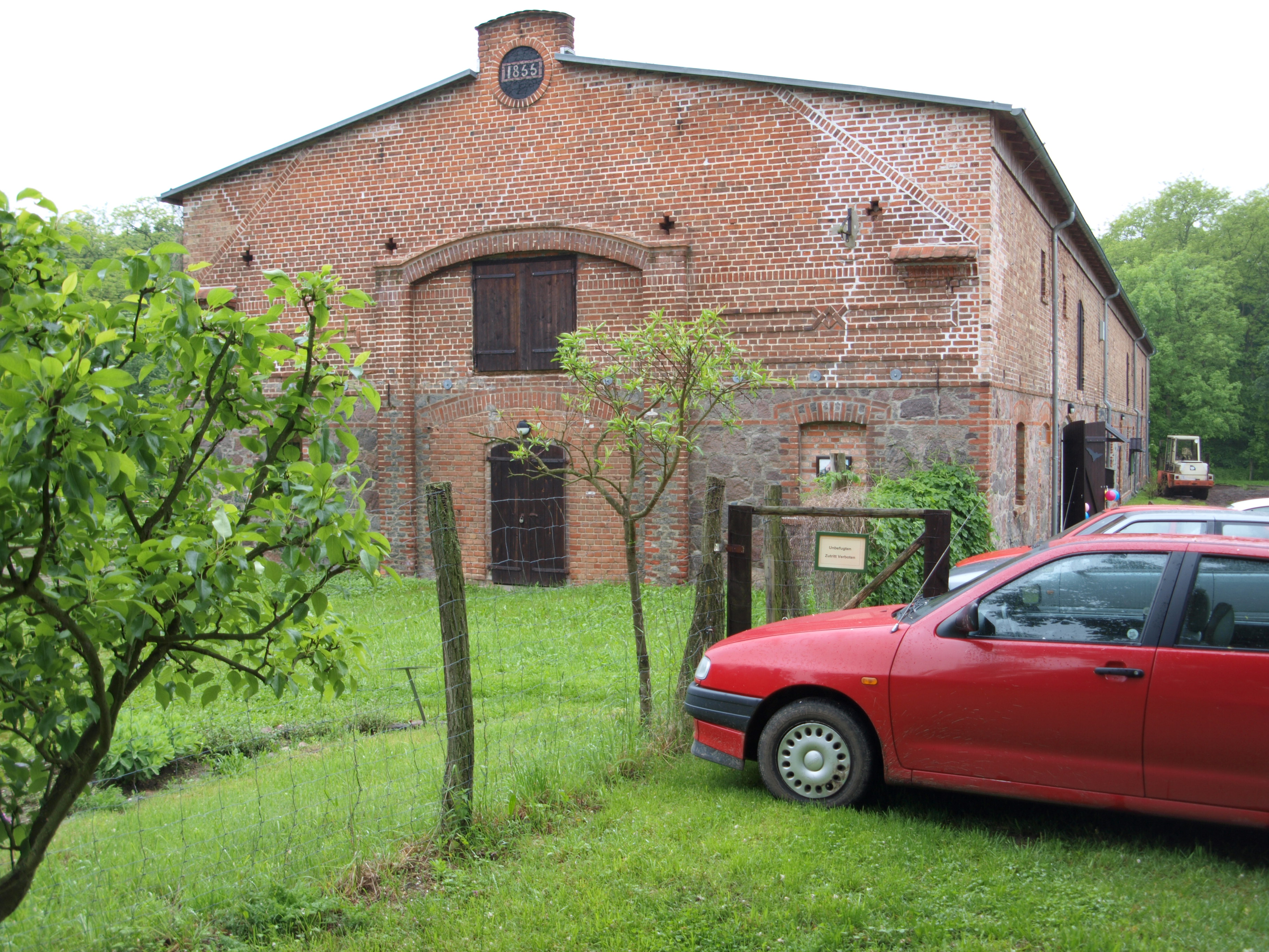 Bat museum